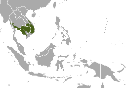 Indochinese Lutung (Trachypithecus germaini) range